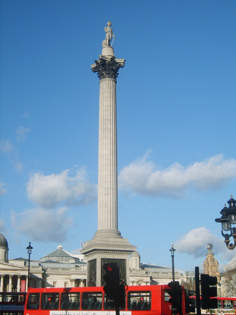 Nelson's Column, Trafalgar Square